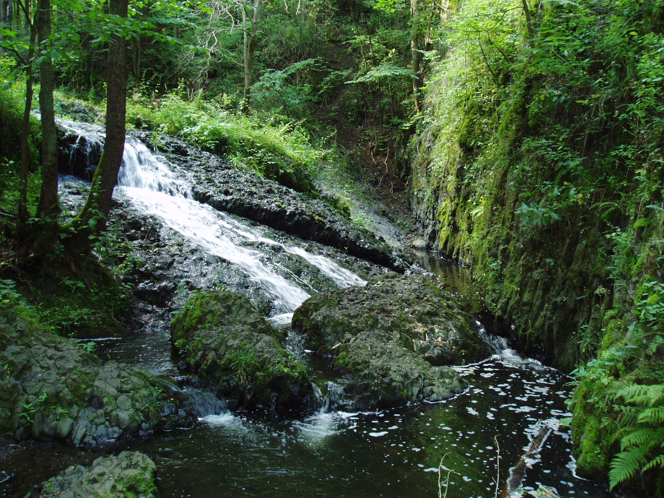 Bobří stream